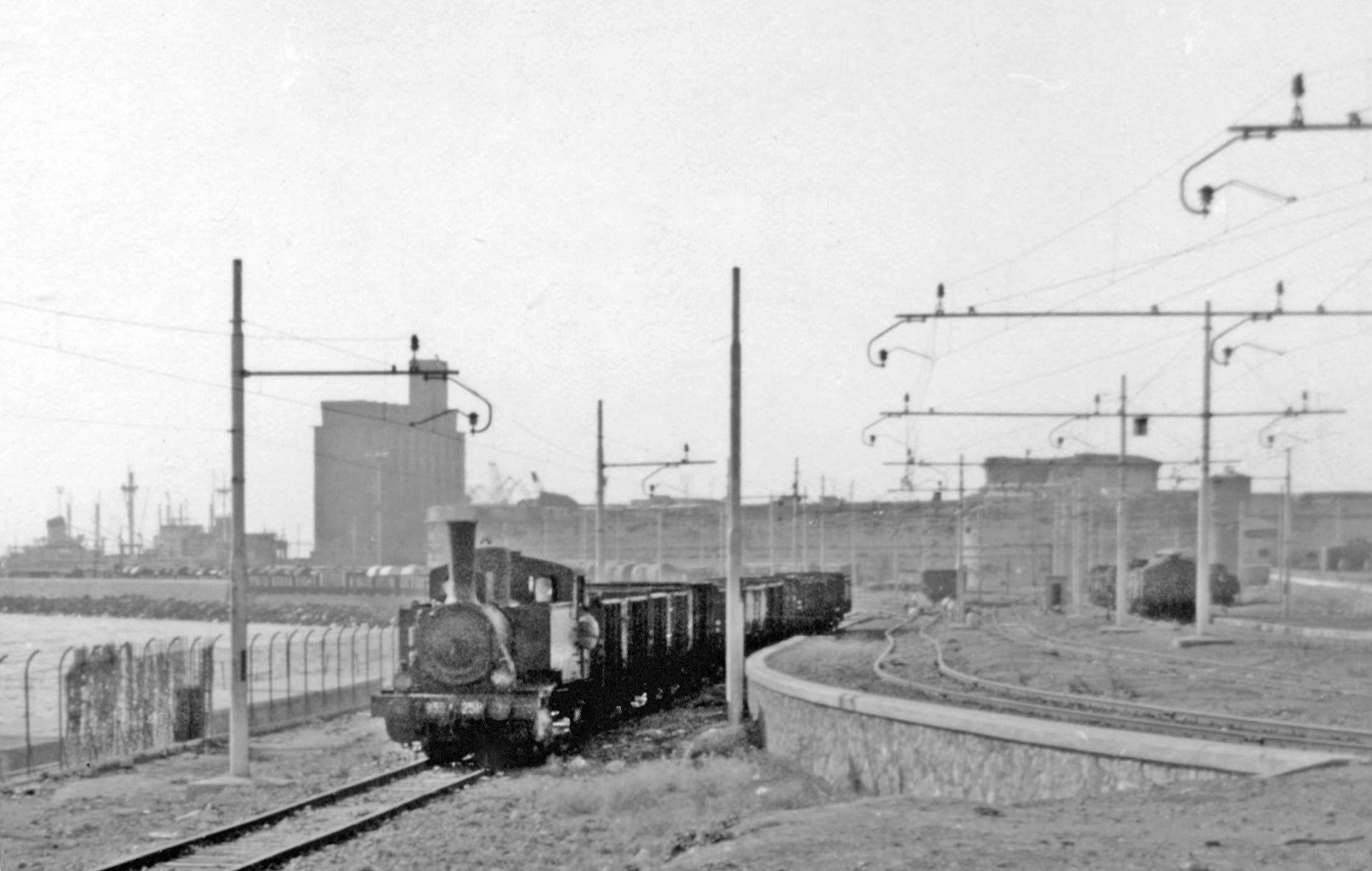 Scene at Civitavecchia harbour, with an FS 0-6-0T shunting, 1959.